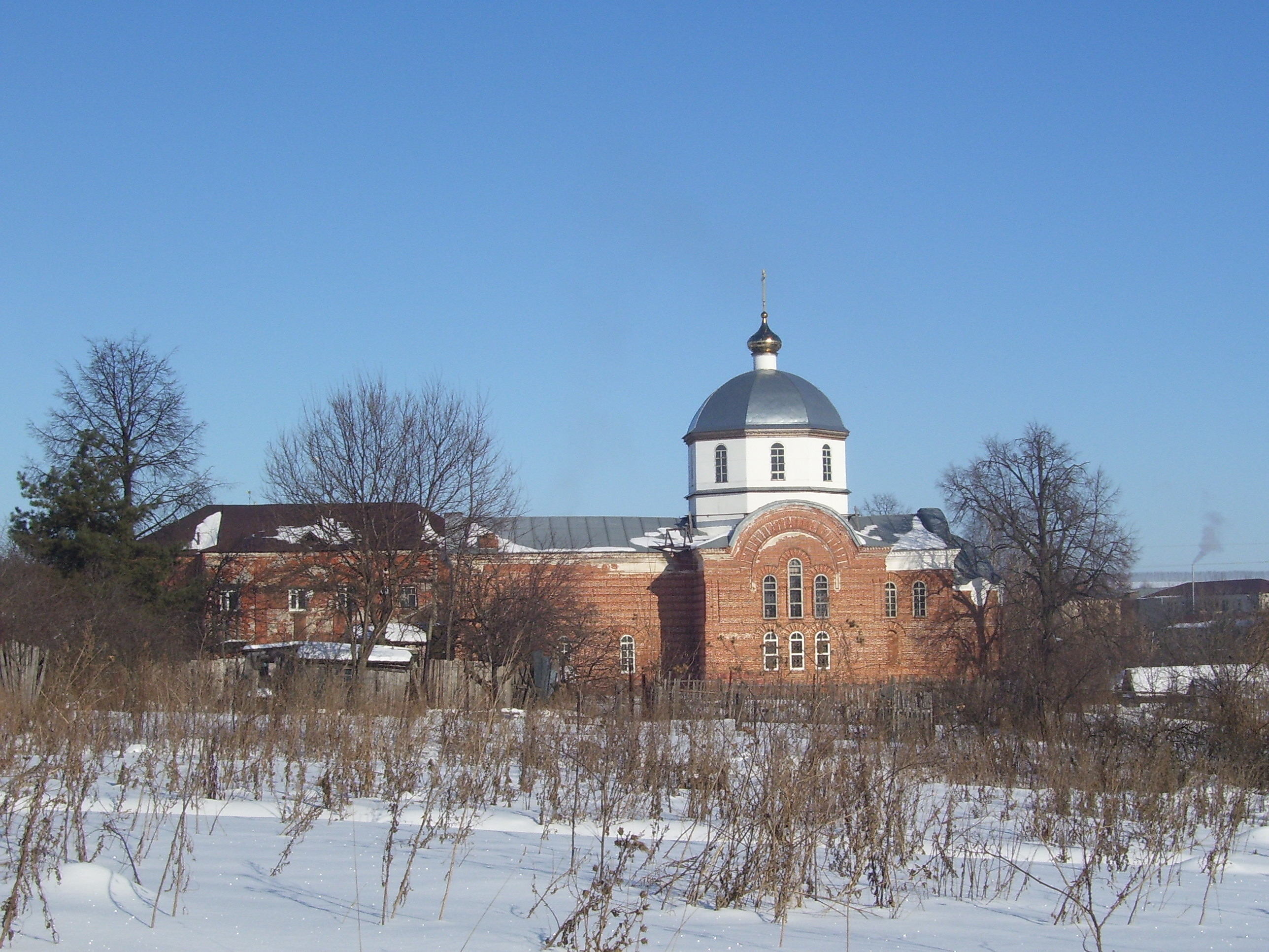 Никольская единоверческая (Старообрядческая) церковь